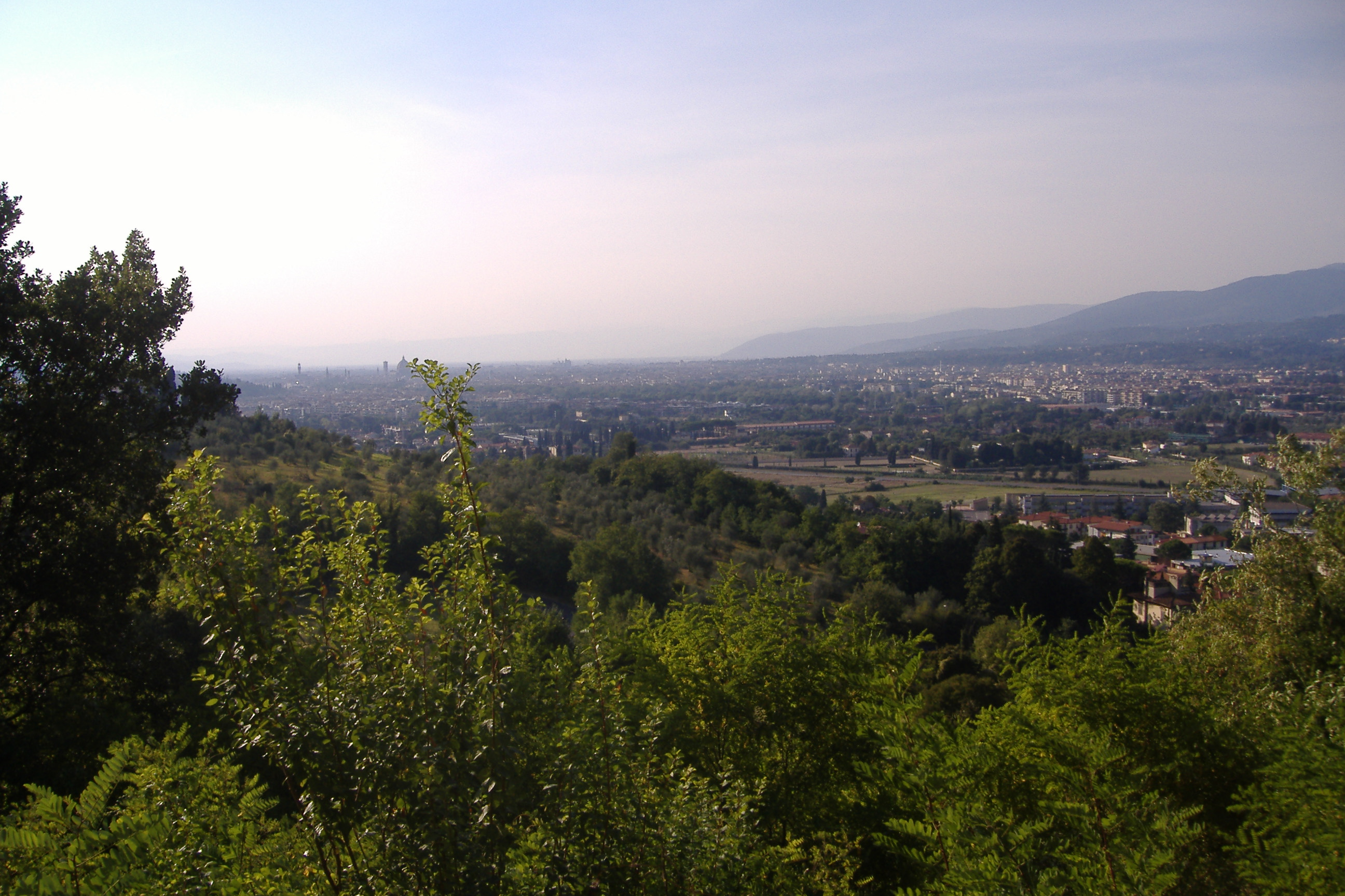 View from church of San Tommaso Baroncelli - Bagno a Ripoli - Florence -Italy